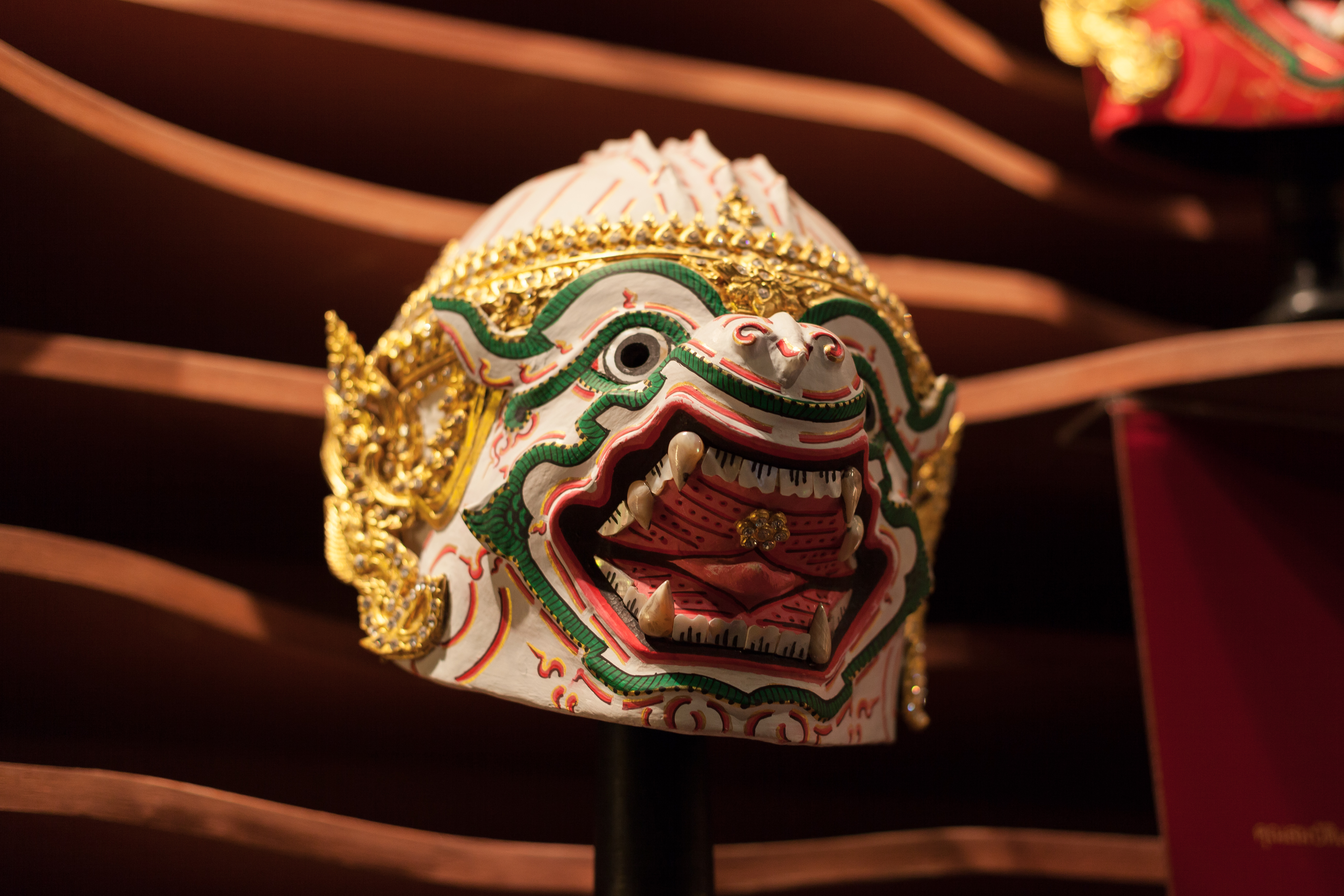 Hanuman Mask at Nitasrattanakosin Museum, Bangkok.